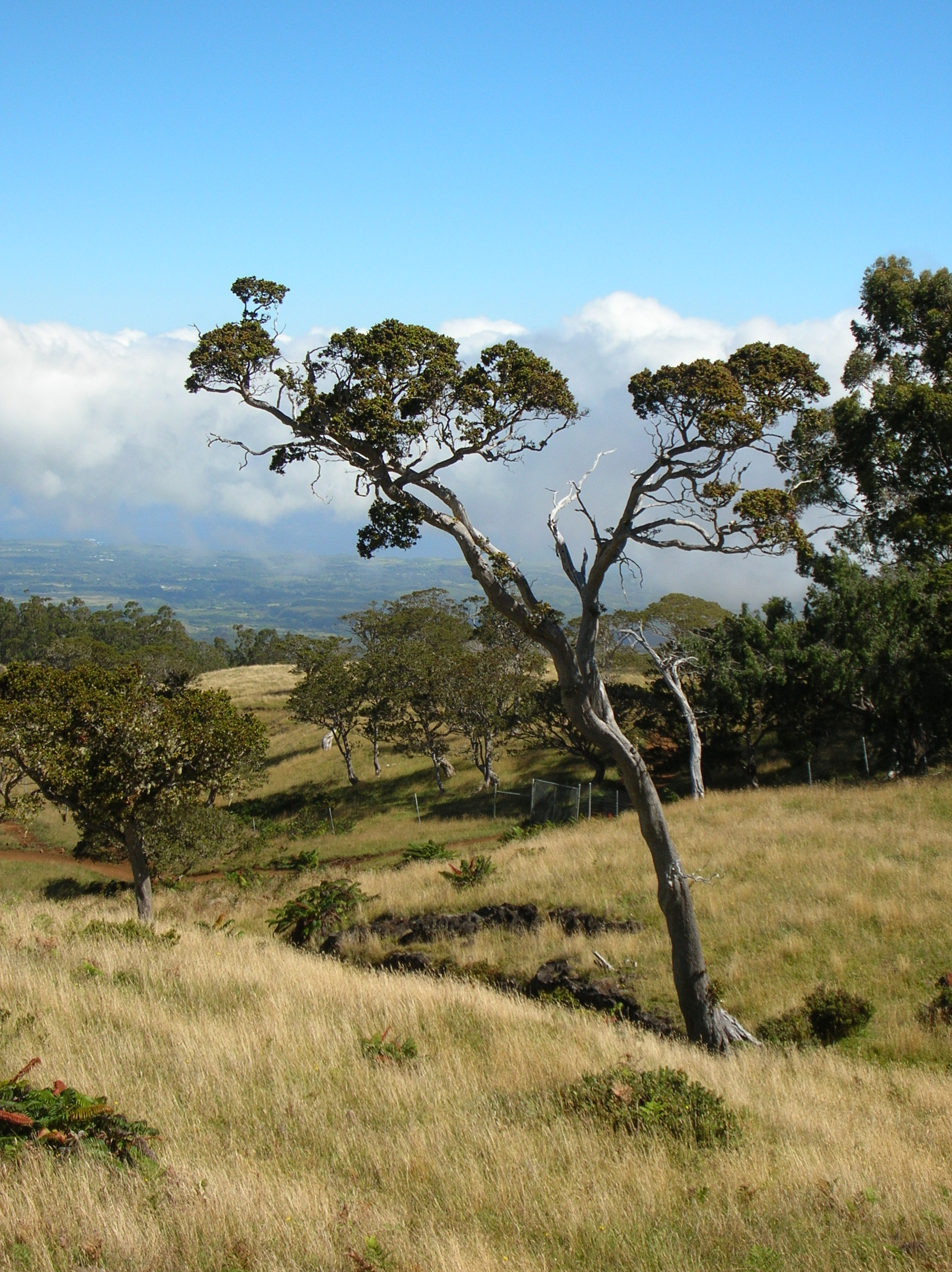 Metrosideros polymorpha (habit). Location: Maui, Kahakapao Gulch